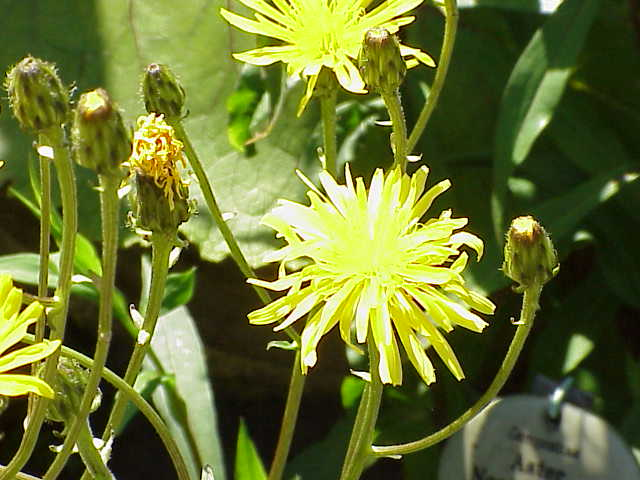 Species: Crepis sibirica Family: Compositae Image No. 1